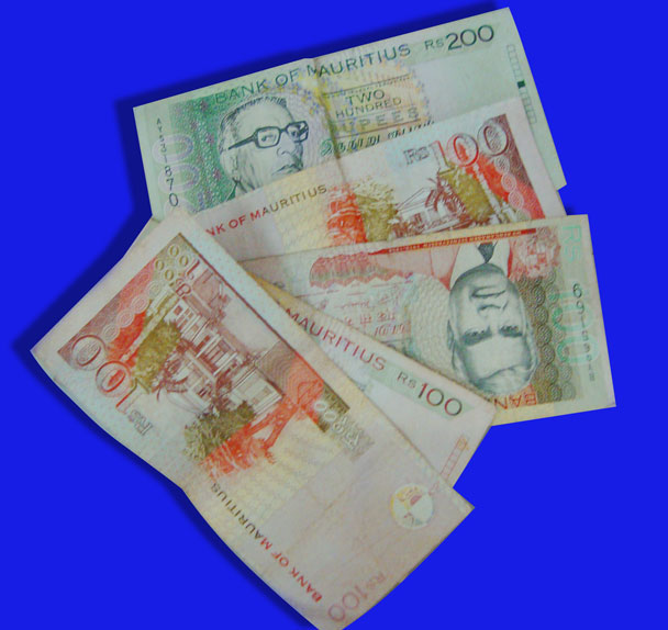 Mauritian money